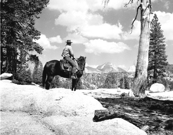 Red Slate Mountain.jpg (photo taken in 1963) Downloaded from : [1] Credits : USDA + US National Agricultural Library